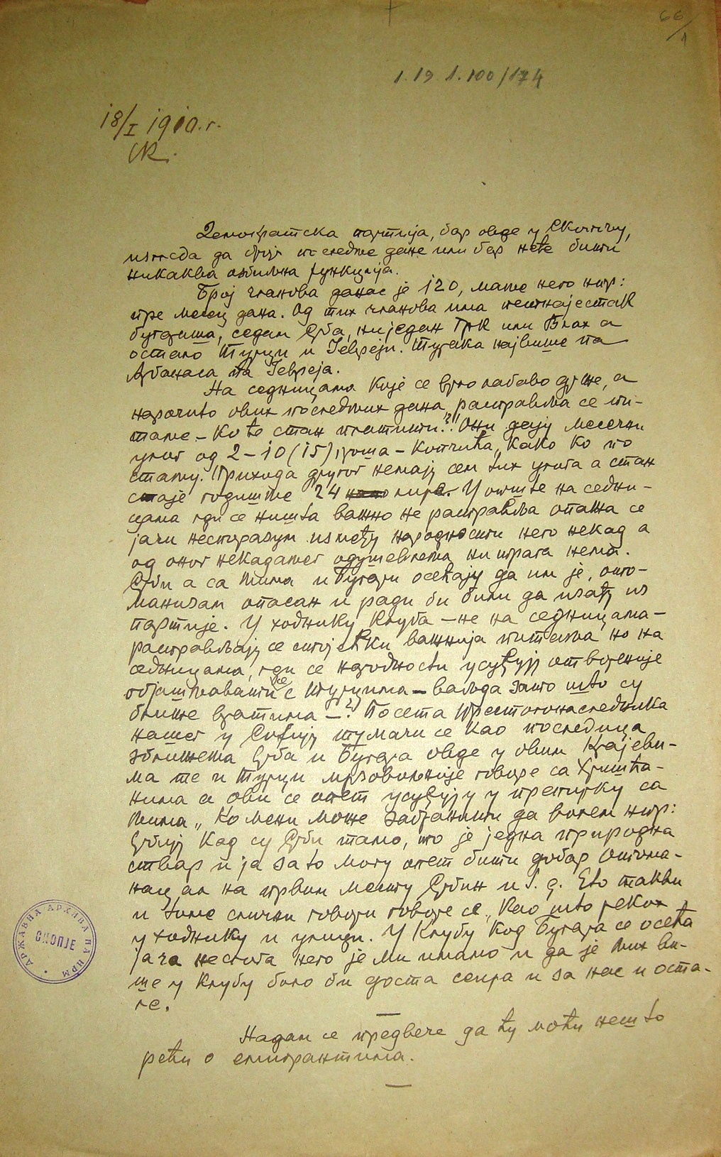 Serbian report on the role and activities of the Democratic Party in Skopje (Skopje, 18 January 1910) This media file is produced by Wikipedian in Residence in Category:Wikipedian in Residence at DARM in 2016.